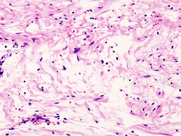 Histopathologic image of schwannoma of the subcutis, representing an Antoni B type. The same case as shown in a file "Subcutaneous_schwannoma_(1)_Antoni_B.jpg". H & E stain.